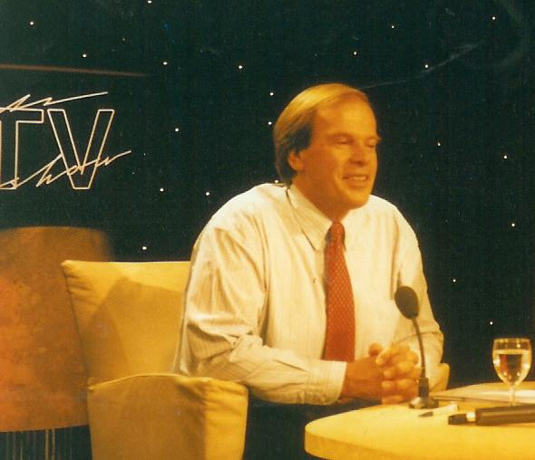 Ivo Niehe, cropped from File:Tvshow ivo niehe en ronald blom.jpg, PD